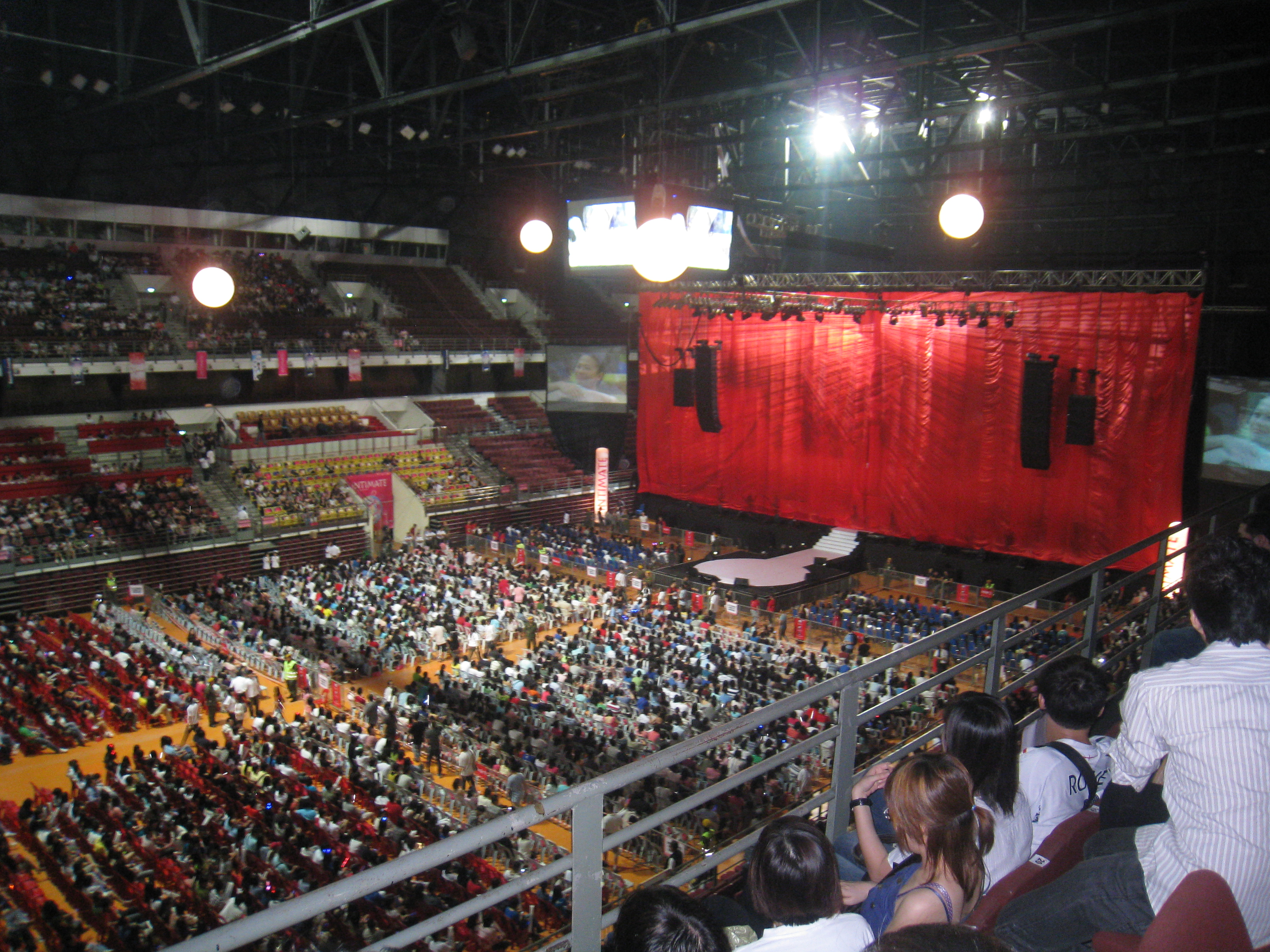 Putra Stadium, National Sports Complex, Bukit Jalil, Kuala Lumpur, MalaysiaBahasa Melayu: Stadium Putra, Kompleks Sukan Negara, Bukit Jalil, Kuala Lumpur, Malaysia